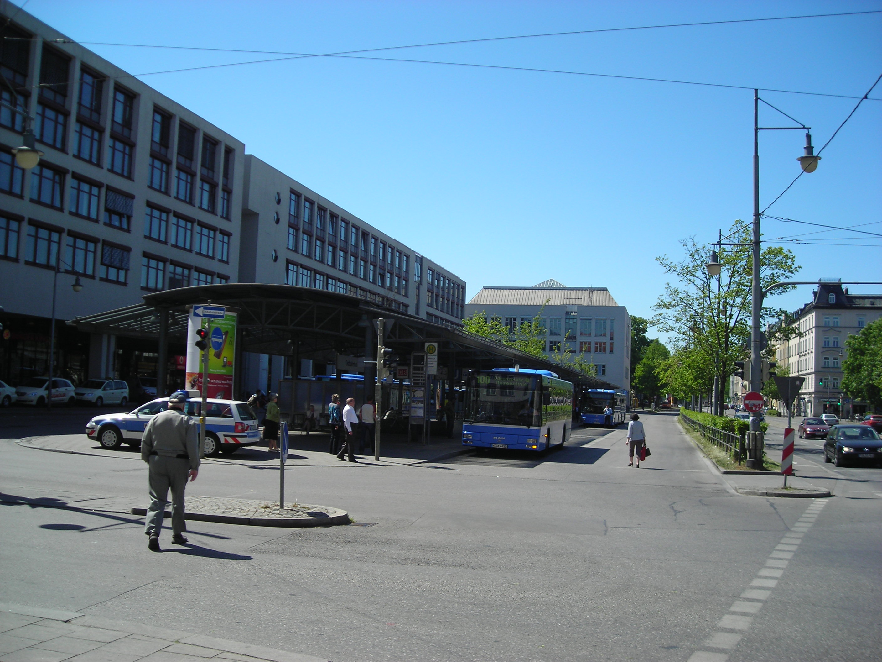 Bus station at the Ostbahnhof (East Train Station) in Munich. Here the buses drive on the left, but with no oncoming traffic.